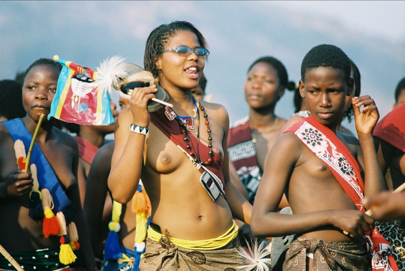 Reed Dance in Eswatini